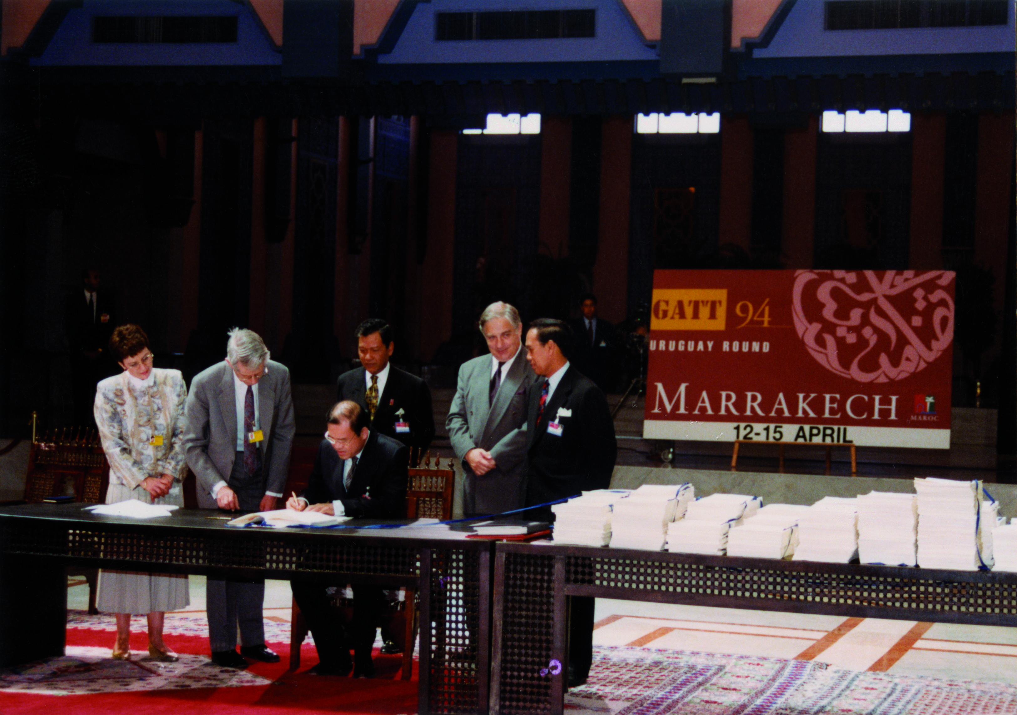 These photos may be reproduced provided attribution is given to the WTO and the WTO is informed. Photos: © WTO